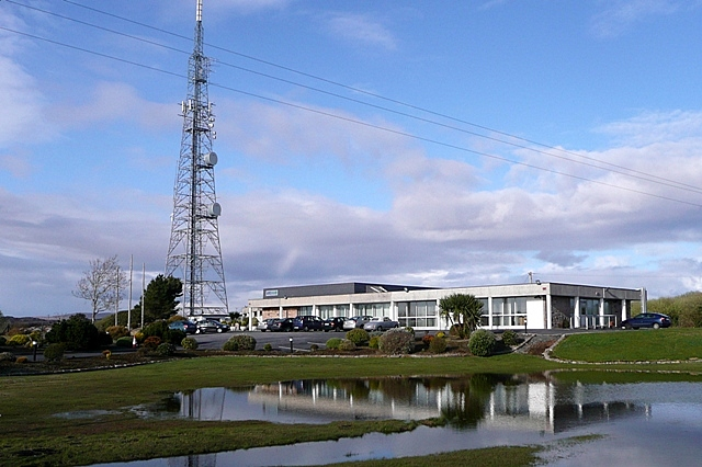 Raidío na Gaeltachta, Casla This is the headquarters of the radio station that serves the Gaeltacht (Gaelic-speaking region) at Casla.